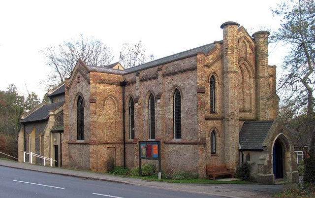 St Peter, Arkley, Herts